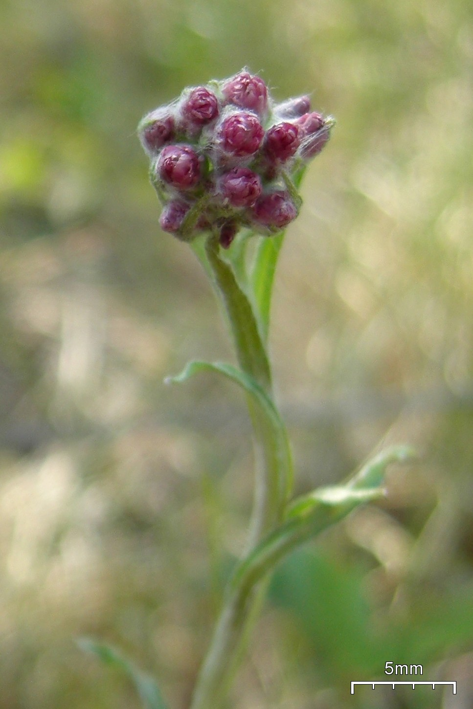 Antennaria rosea E. Greene 20090604.9 Wells Gray Provincial Park, BC